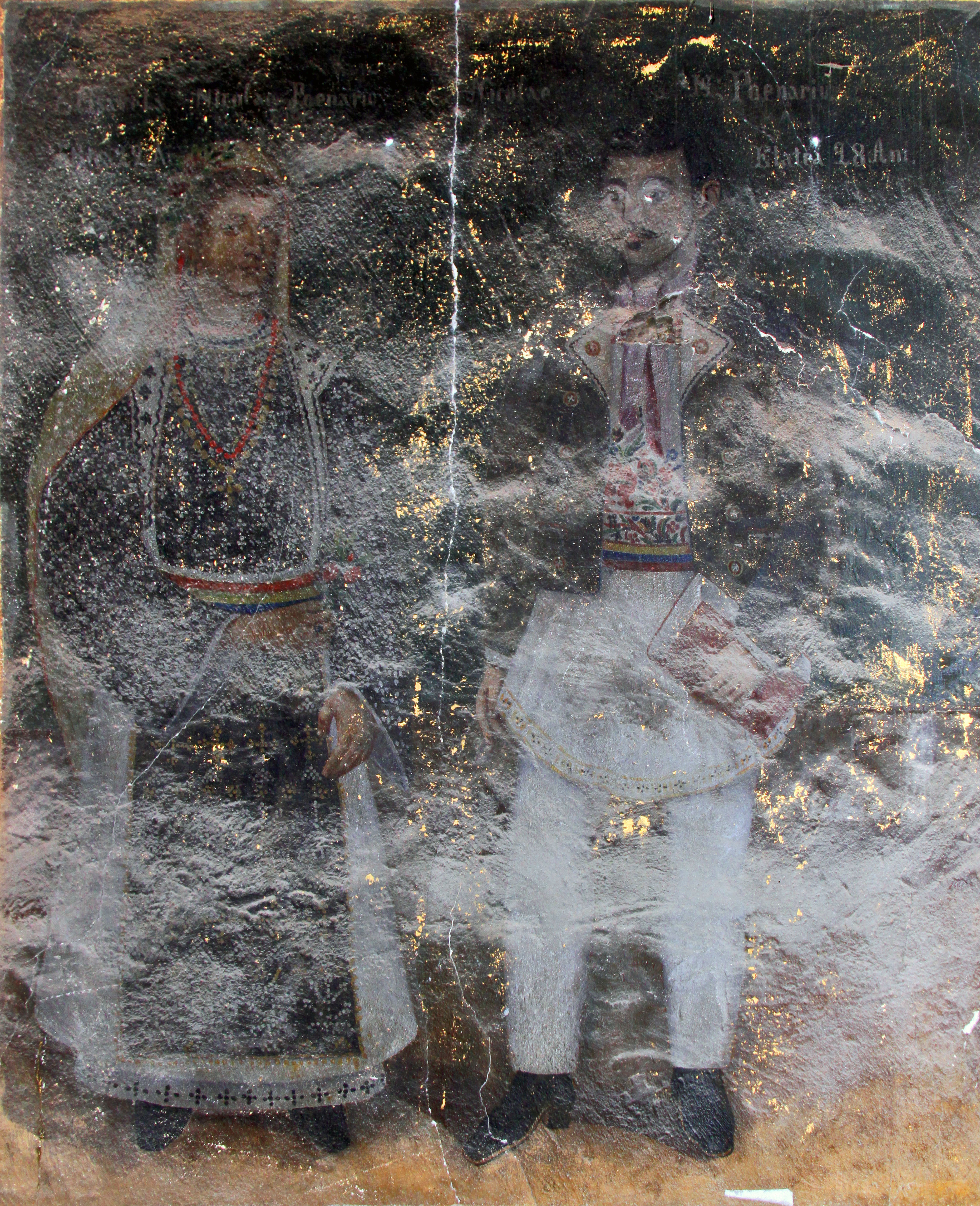 Şirineasa, Vâlcea county, Romania, the wooden church, founders.